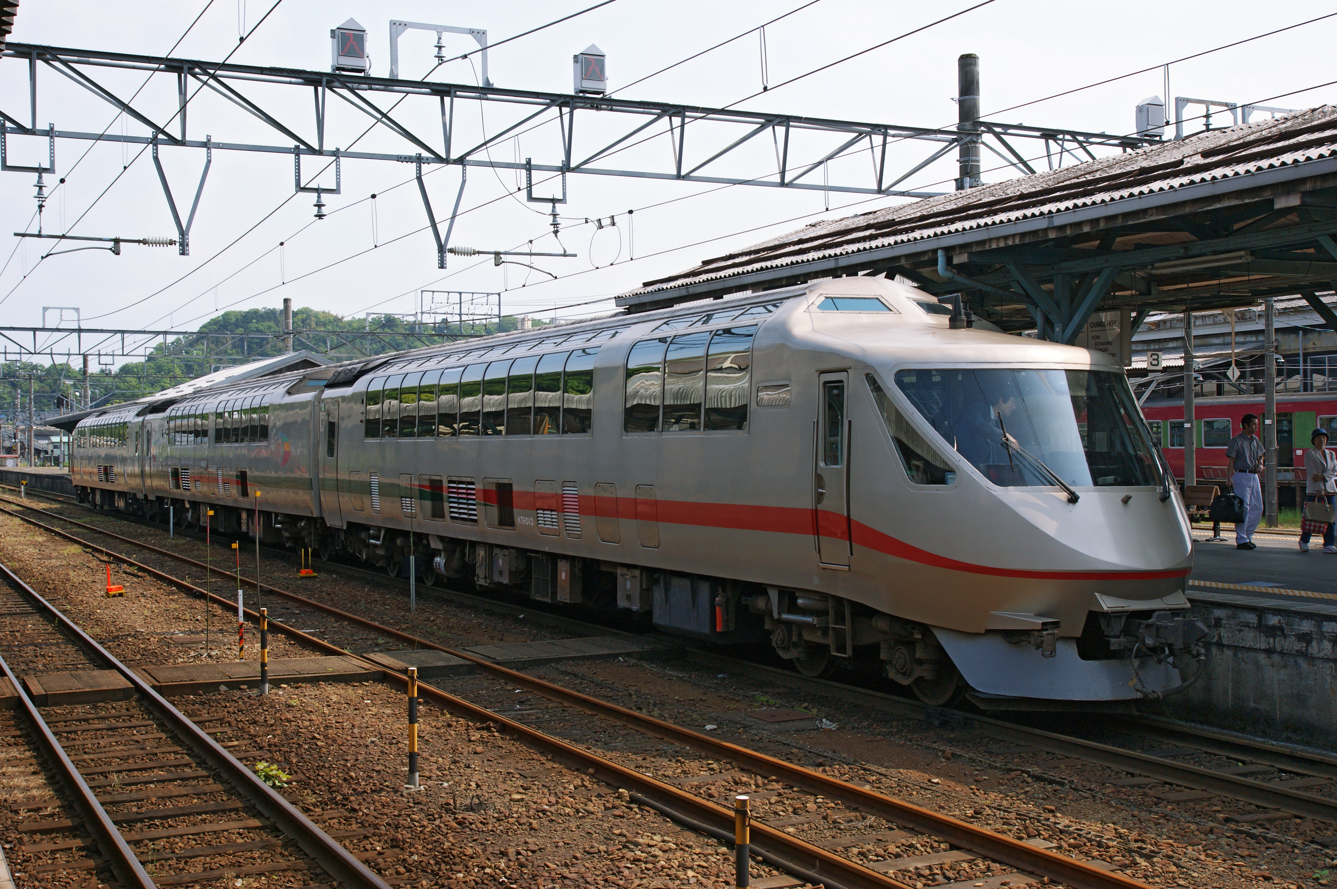 Toyooka Station in Toyooka, Hyogo prefecture, Japan